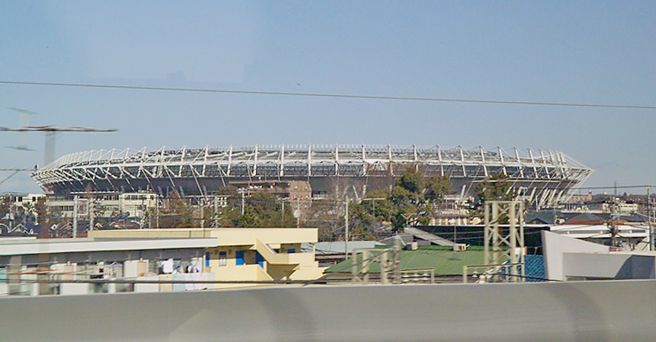 Ajinomoto Stadium in Chofu, Tokyo, Japan is the home of the F. C. Tokyo and Tokyo Verdy 1969 soccer teams.